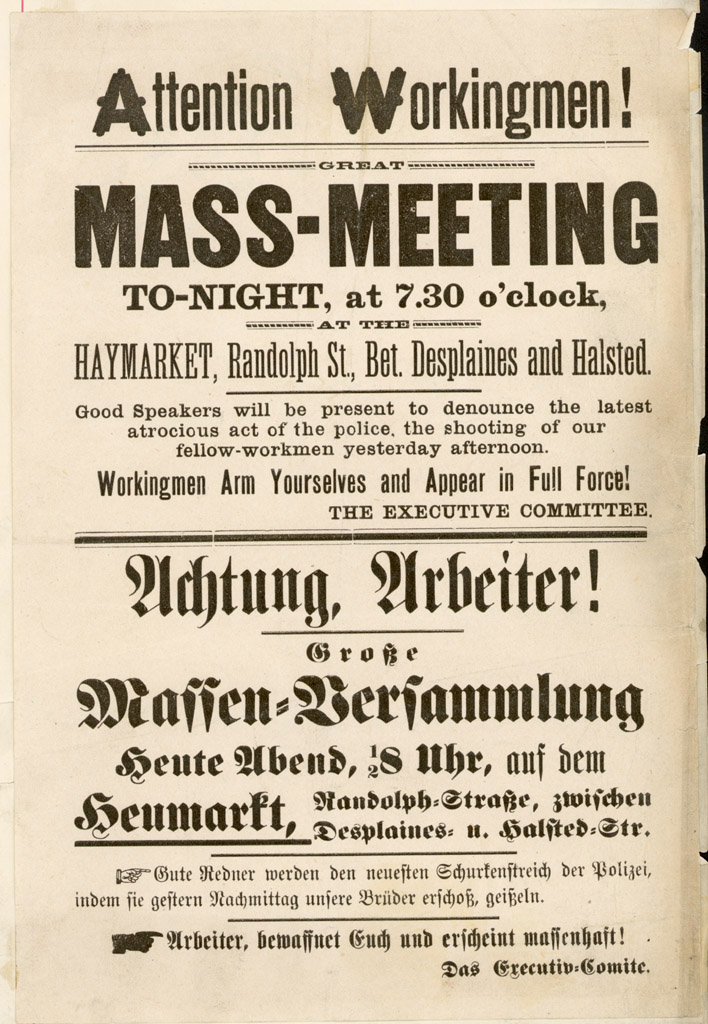 A bilingual English-German flier notifying people of a rally in support of striking workers (Chicago, 1886).